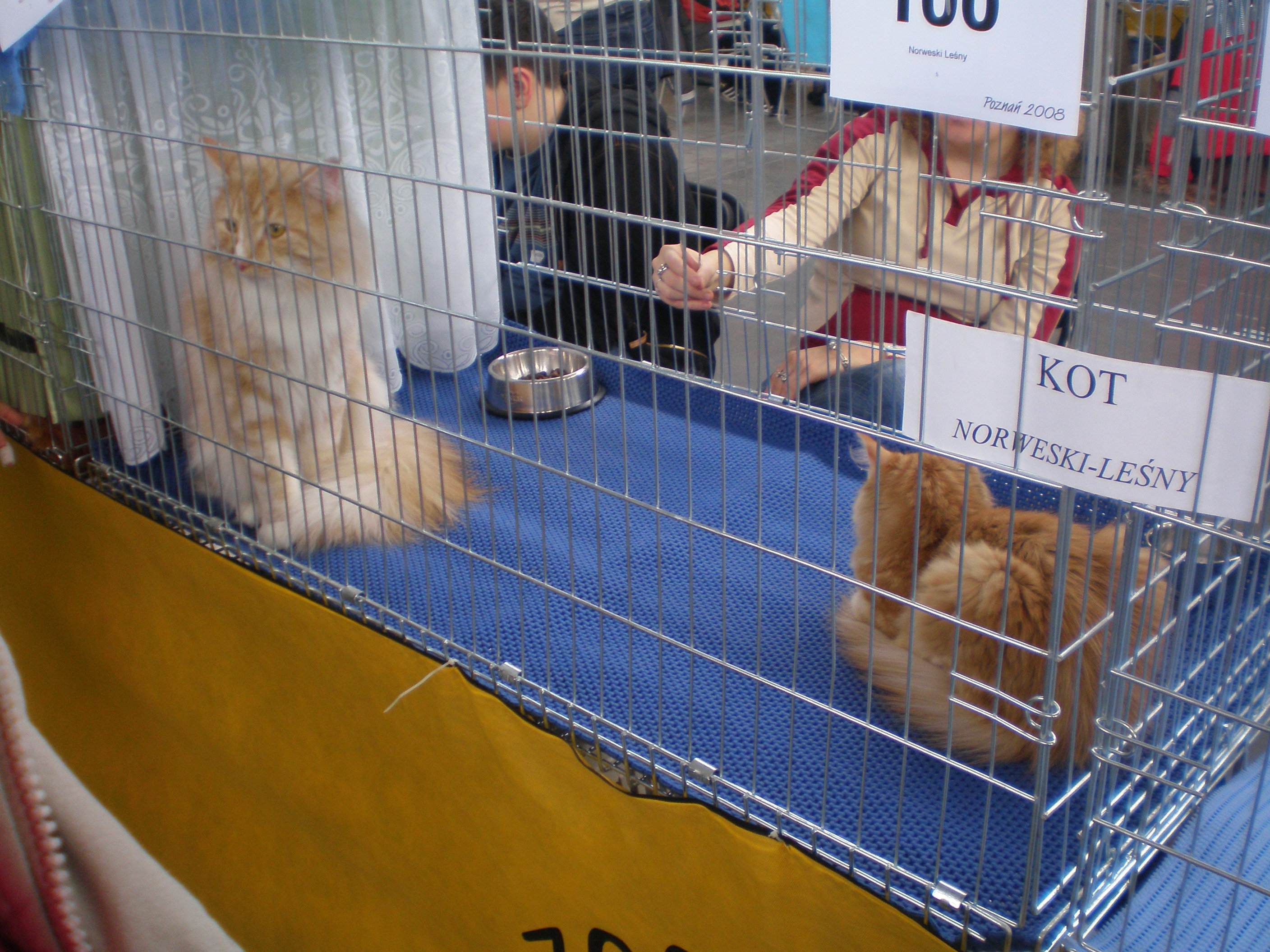 Exhibition of racial cat in Poznań's Word Trade Center